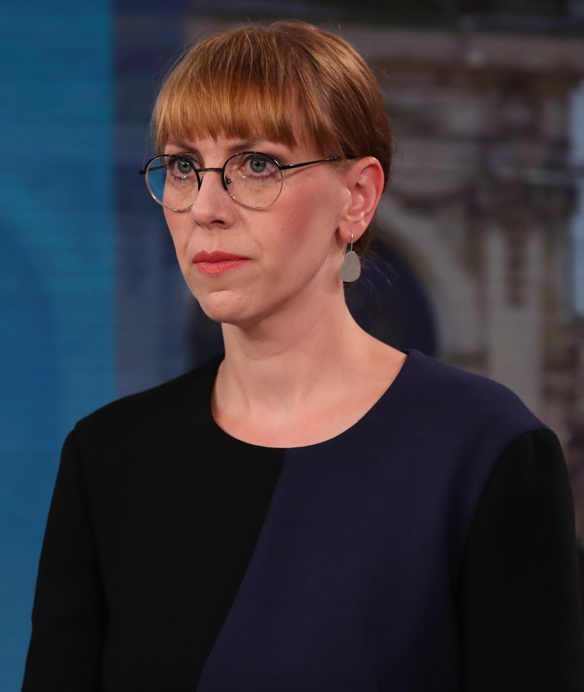 Election night Saxony 2019: Katja Meier (Bündnis 90/Die Grünen)